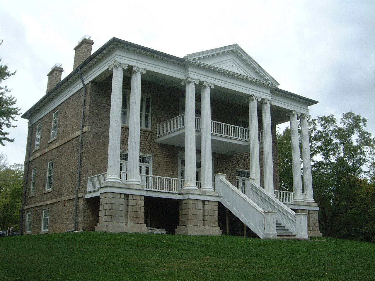 Back side of The School of Restauration Arts at Willowbank.